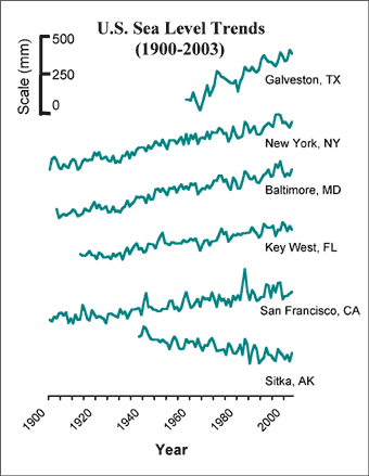 Sea Level Trends from 1900 to 2003